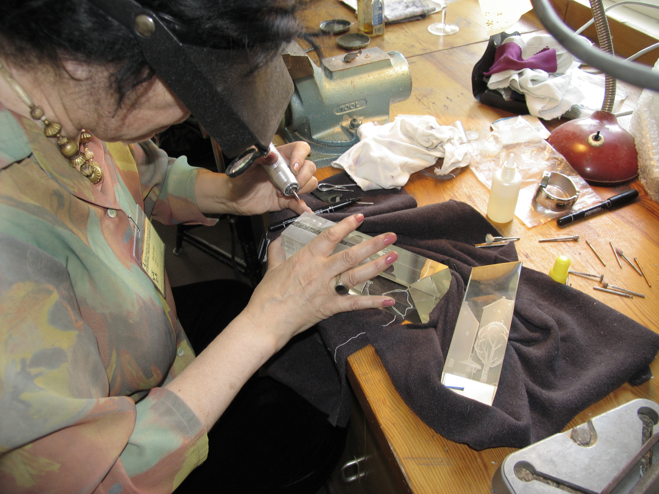 Leah Shulman, artist ,Saint- Petersburg